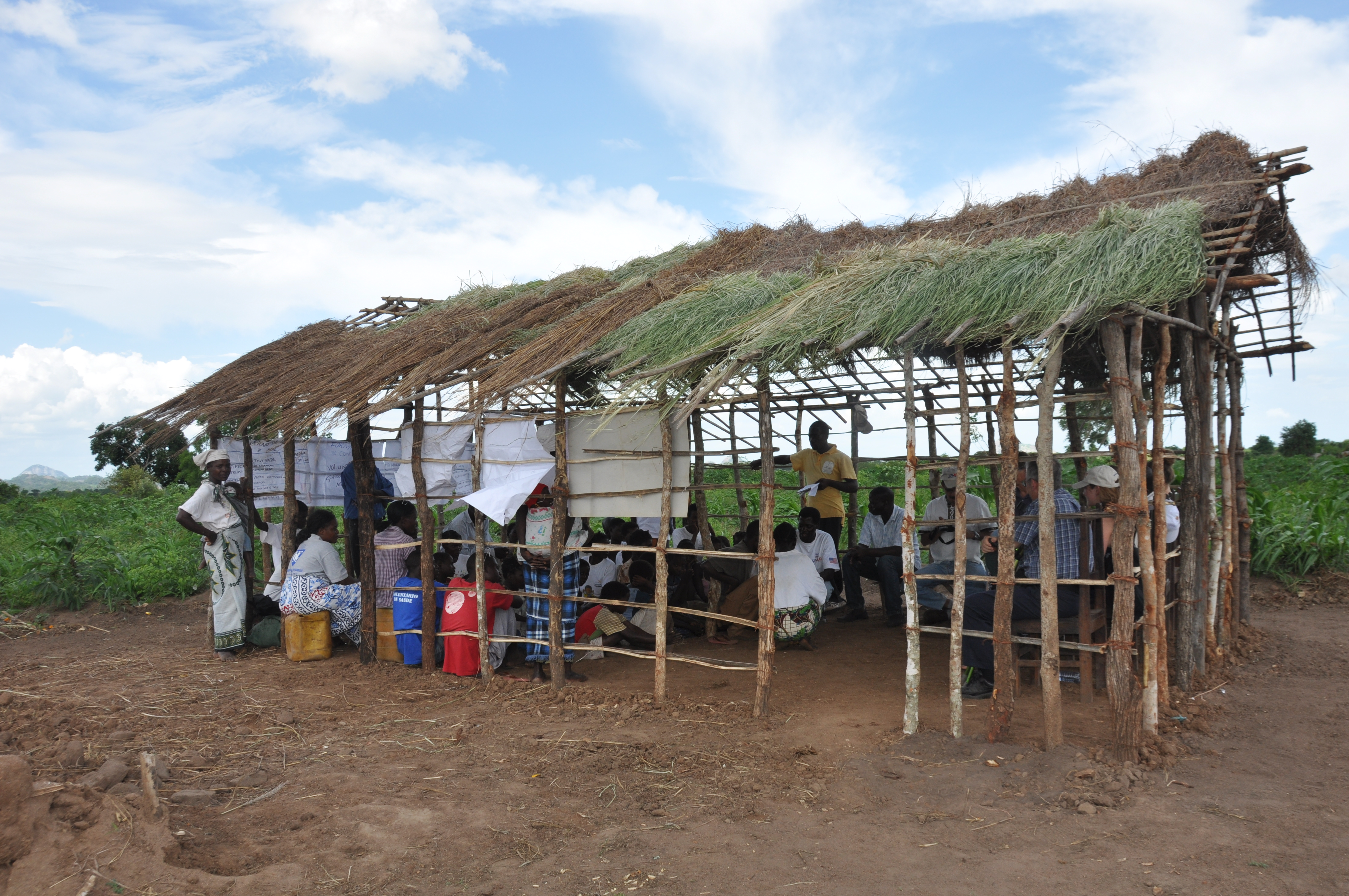 This structure, on the farm of Davane Mesa Paulo, serves as the meeting place for farmers' and mothers' groups in Morrumbala. Photo by Bita Rodriguez